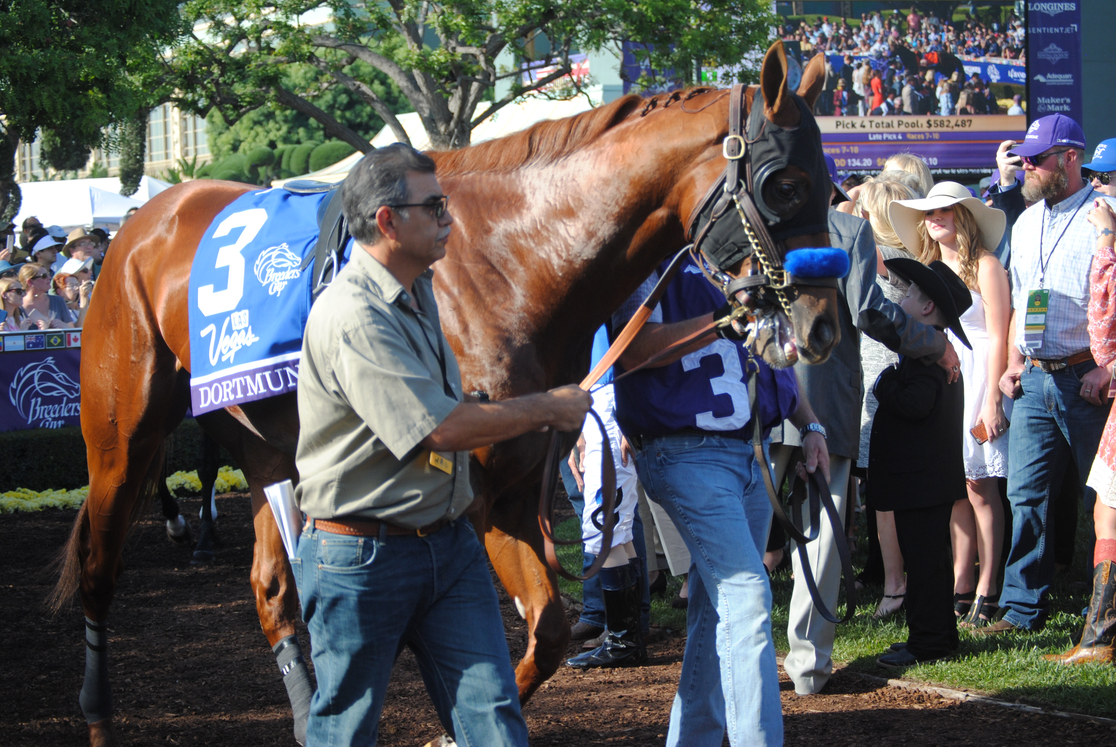 Dortmund preparing for the 2016 Breeders' Cup Dirt Mile